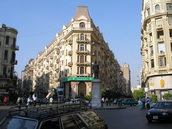 Colonial Style Architecture in Cairo